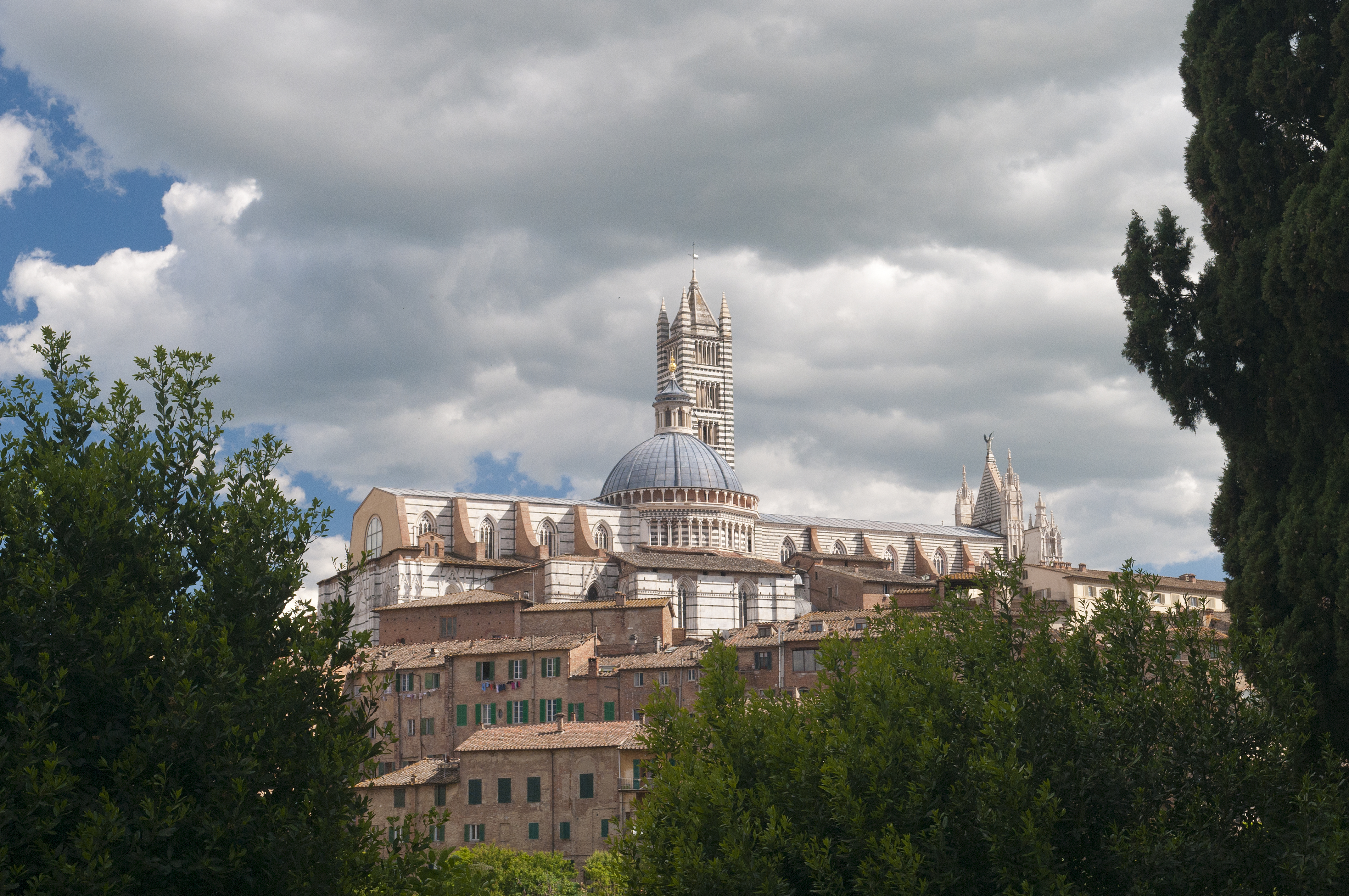 Cathedral in Siena, Tuscany